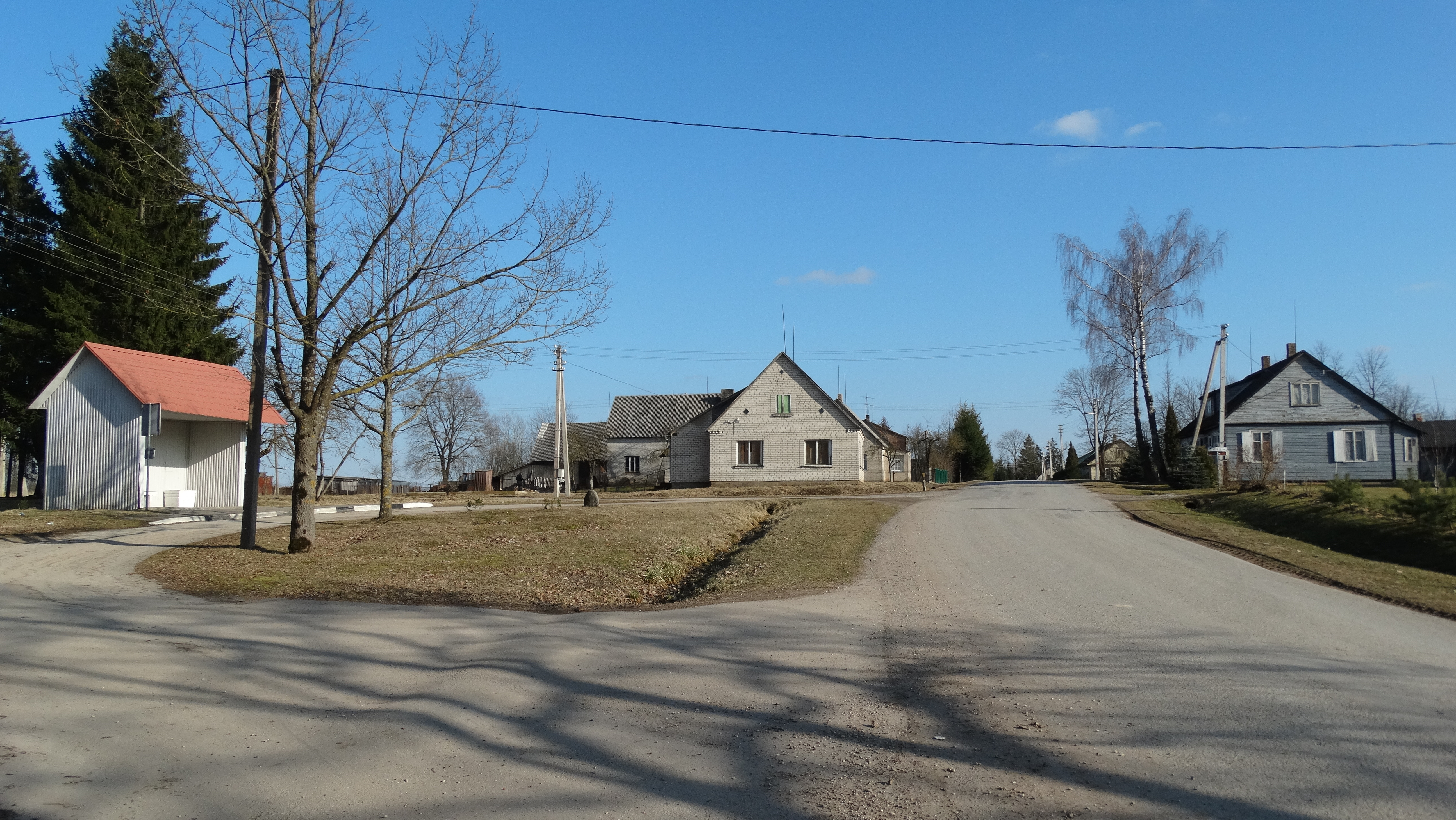 Former school in Stakiai, Jurbarkas district, Lithuania